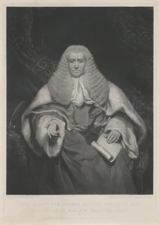 Portrait of George Sowley Holroyd (1758–1831), English judge.